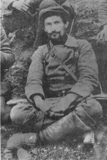 Hristo Silianov as chetnik of IMARO